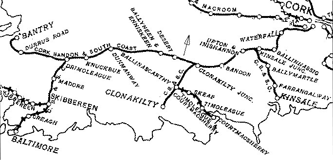 Detail from File:Map Rail Ireland Viceregal Commission 1906.jpg